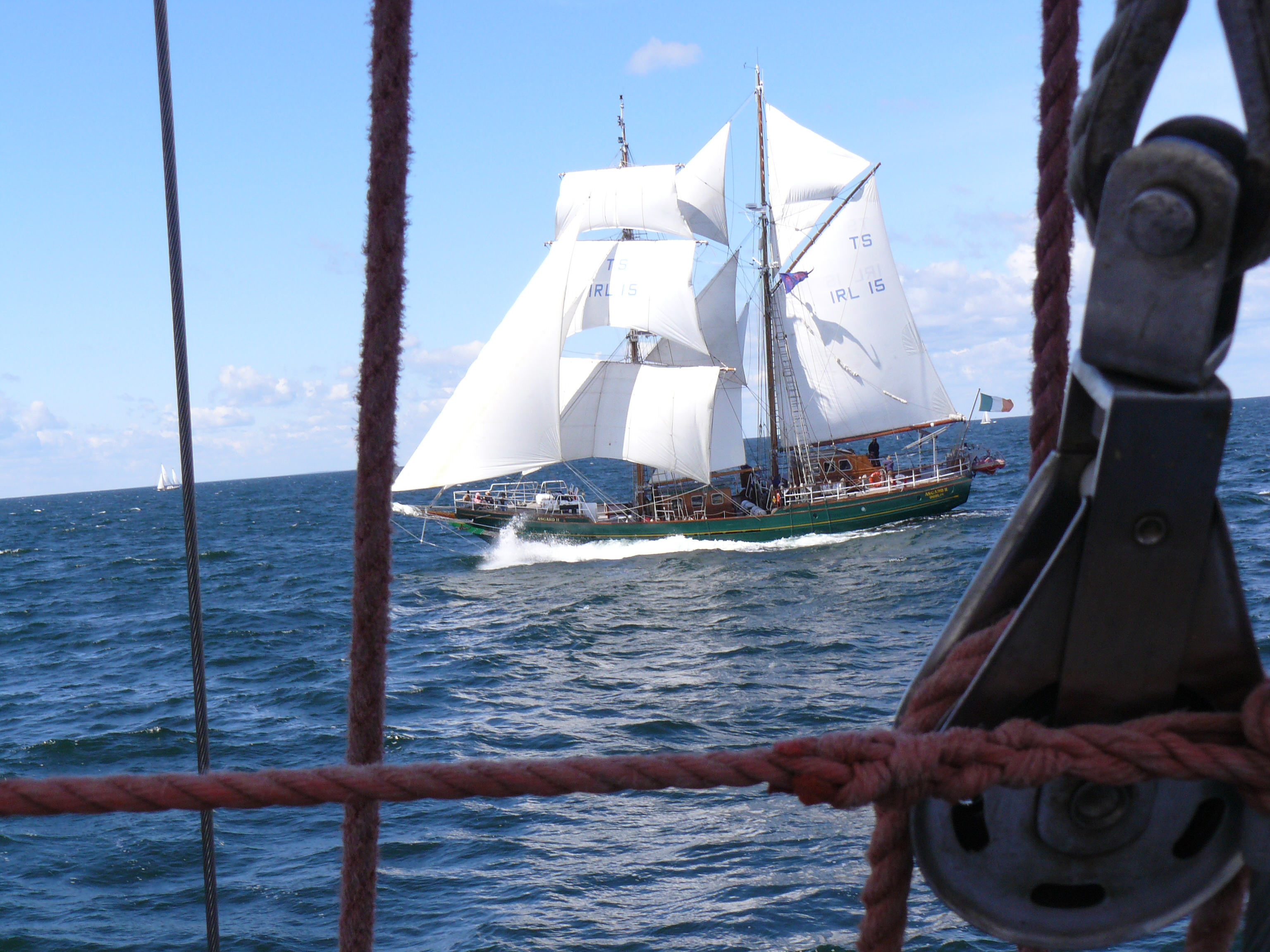 Asgard II